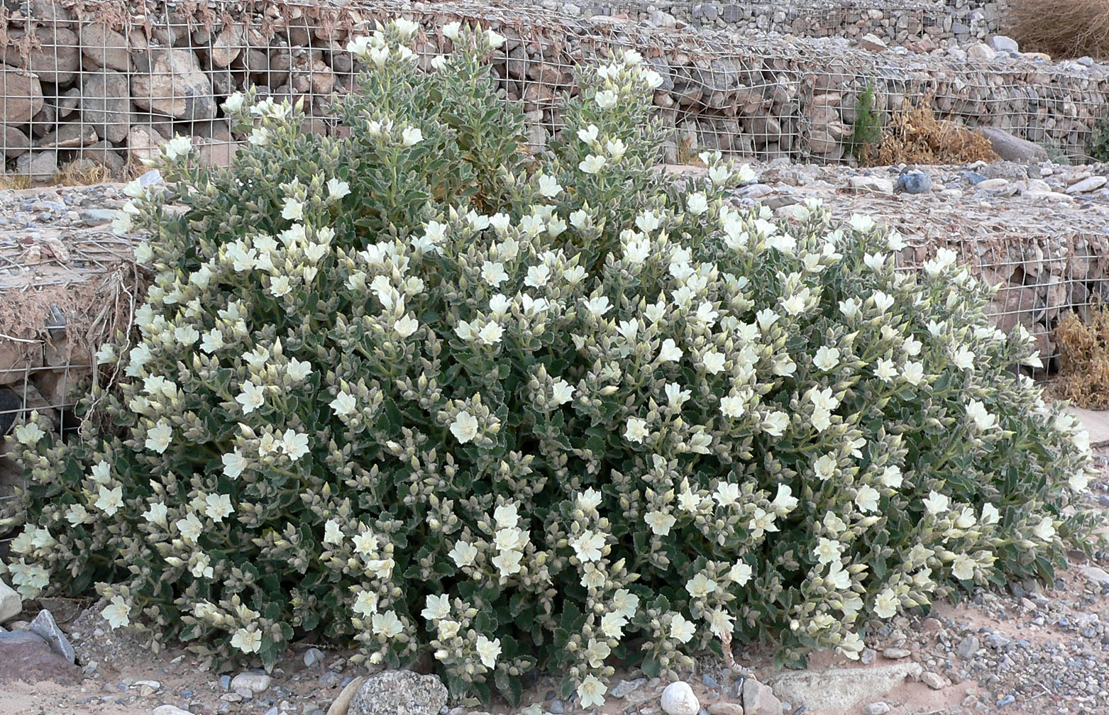 Eucnide urens in Gypsum Wash where Northshore Drive crosses it, Lake Mead National Recreation Area, southern Nevada